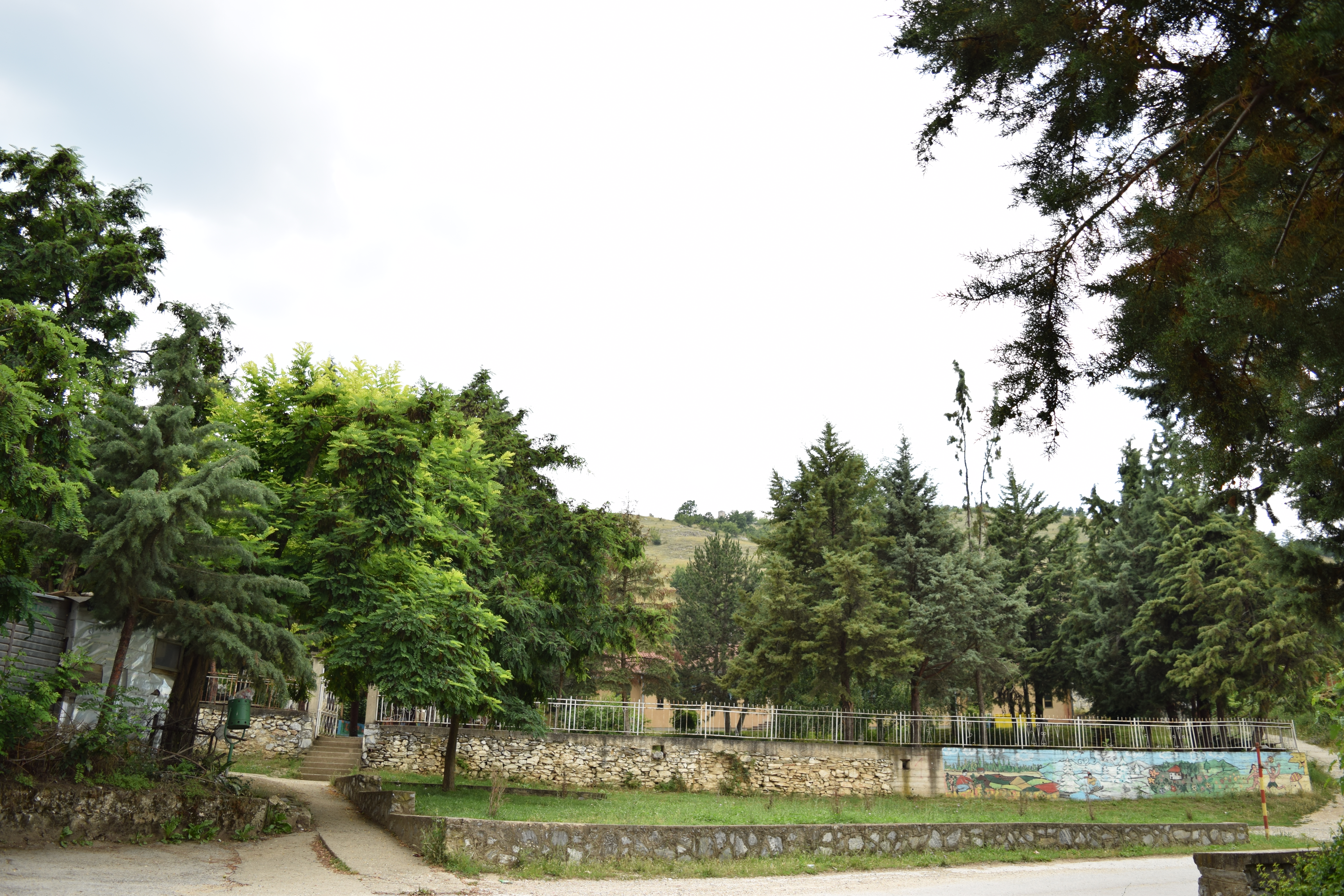 Primary school in the village Izvor